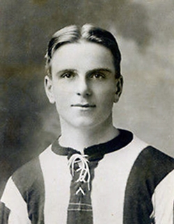 Cropped from a unmarked postcard.